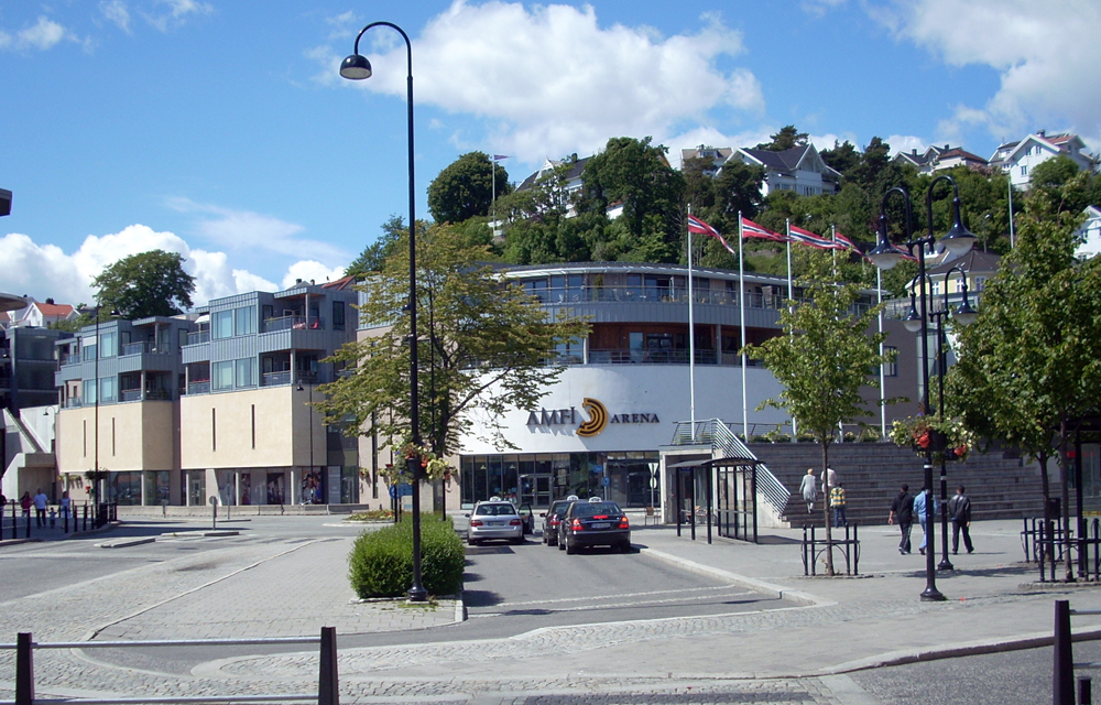 Amfi Arena mall in Arendal, Norway